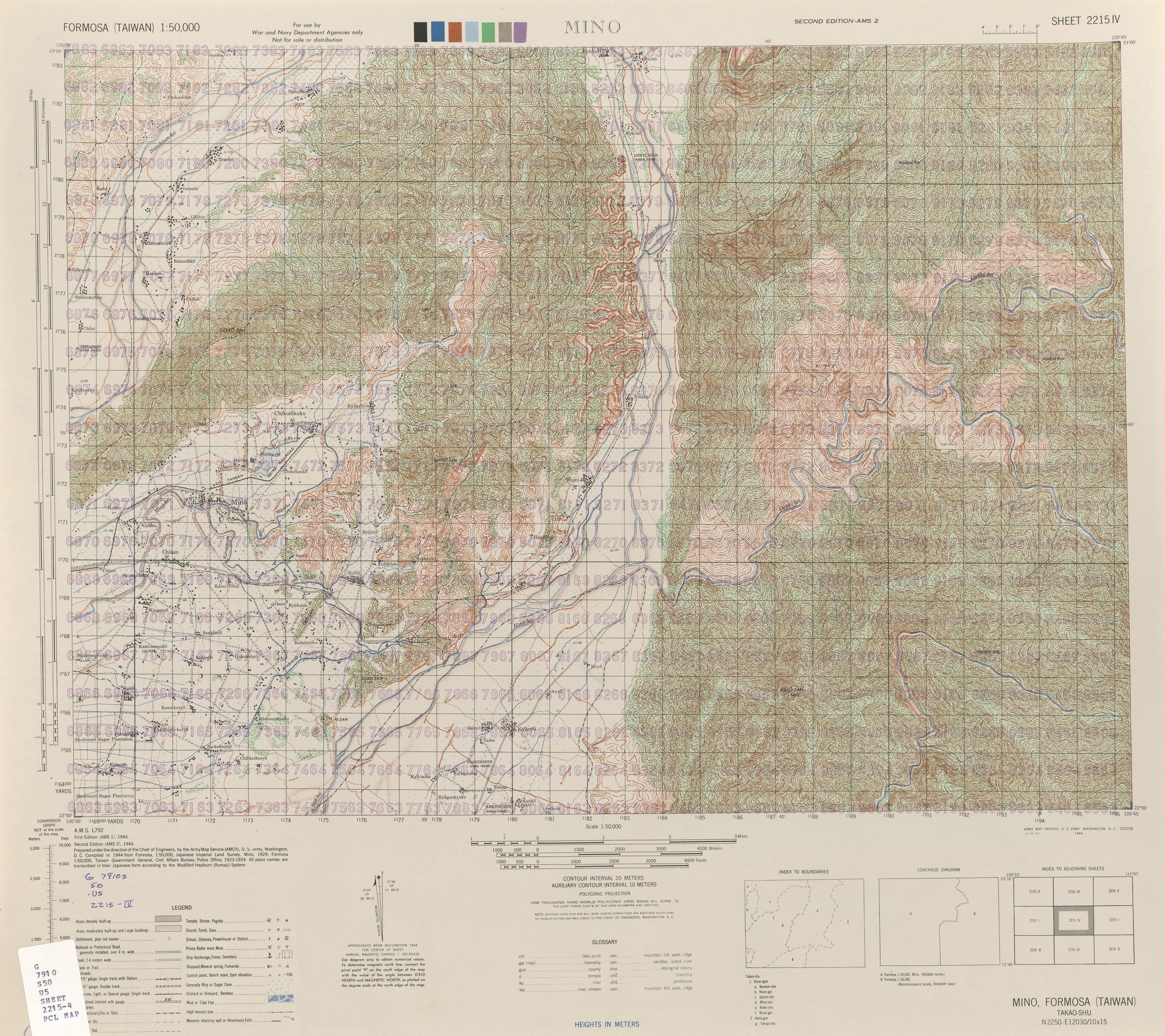 Map from Formosa (Taiwan) 1:50,000 AMS Series L792